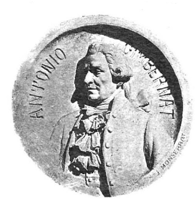 Antoni Gimbernat i Arbós, in Barcelona cómica magazine of 20.10.1894